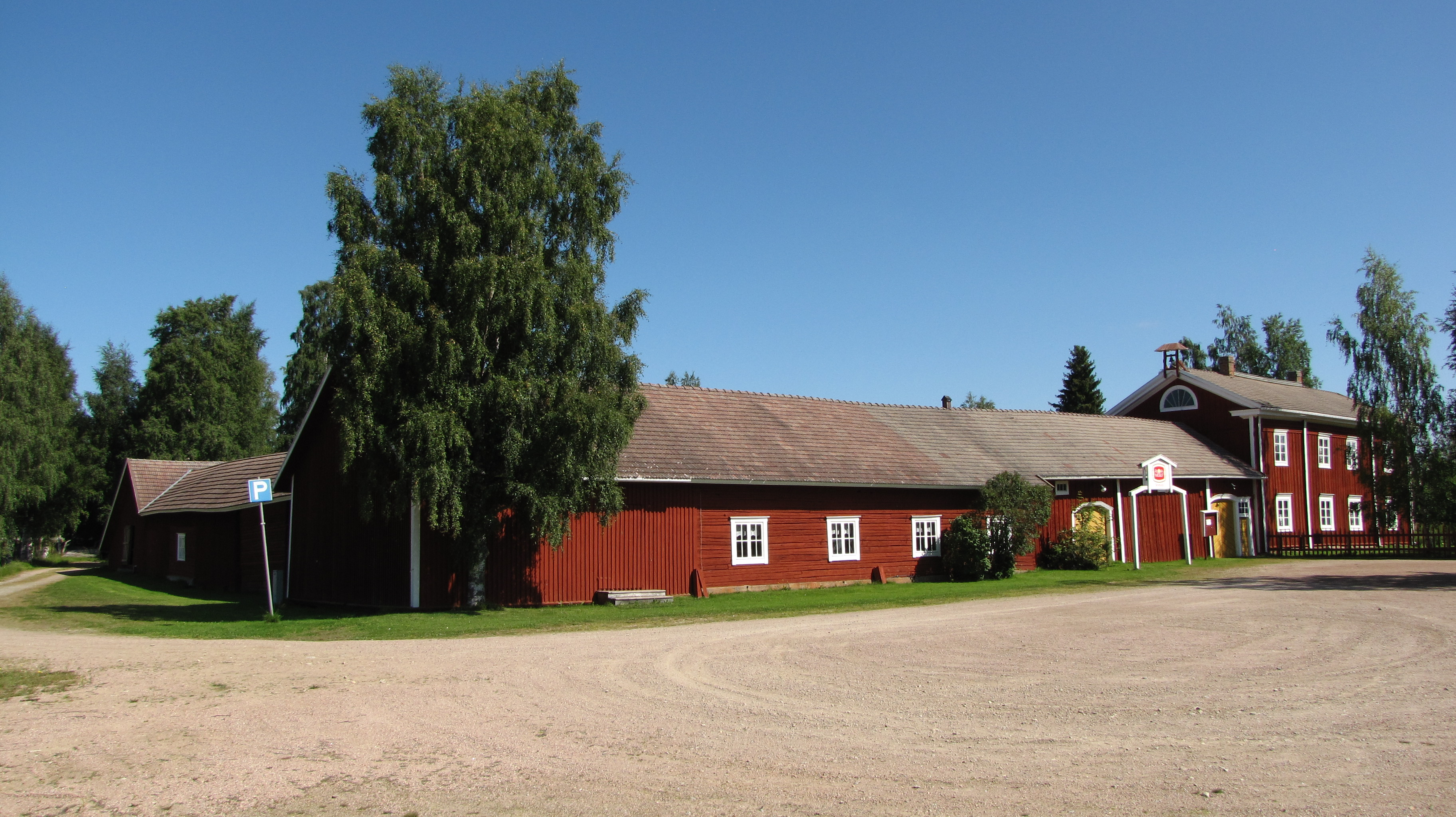 Hämes-Havunen countryhouse in Kauhajoki, Finland.